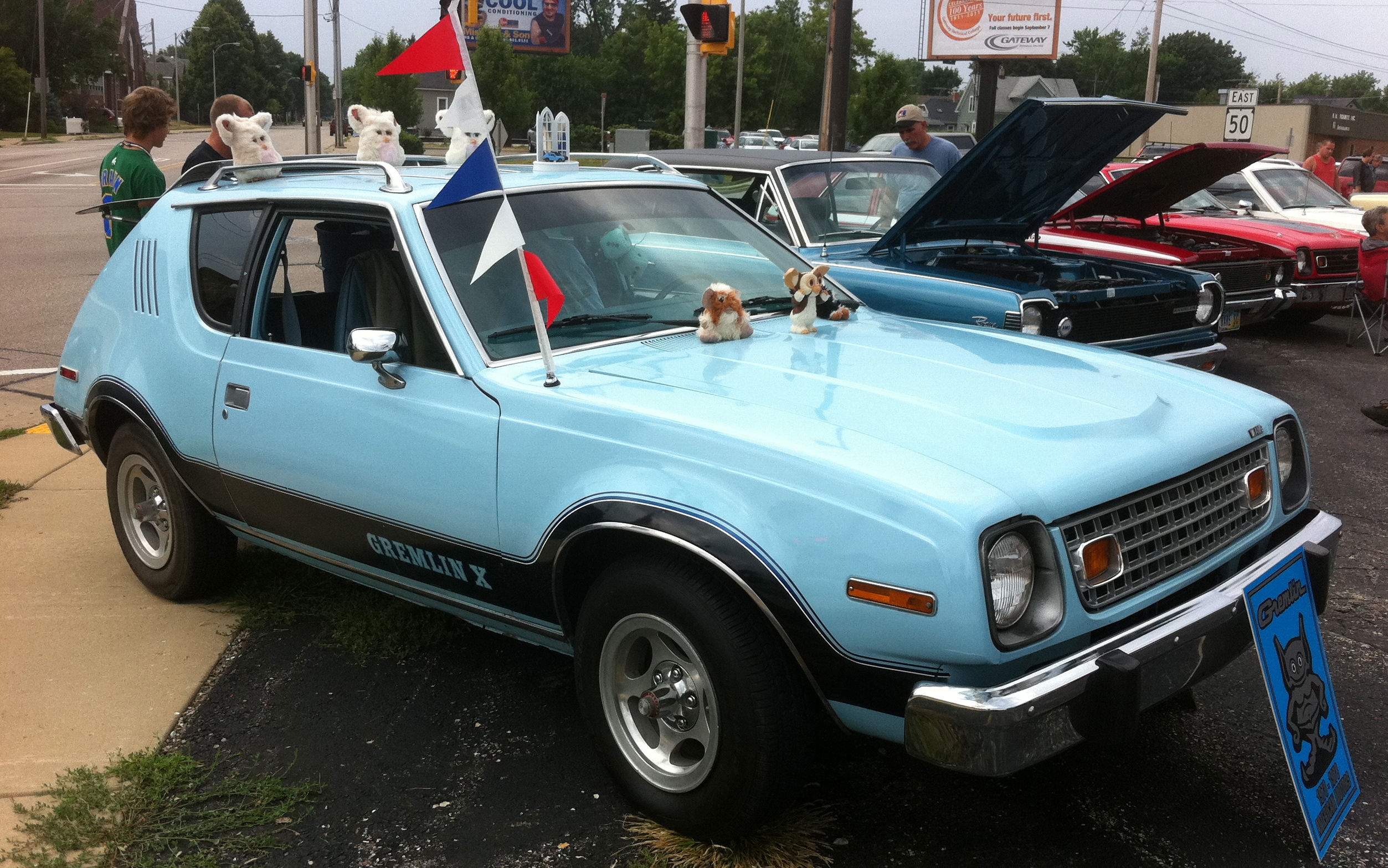 1978 AMC Gremlin with "X" trim, finished in "Powder Blue". Last model year of the Gremlin, a sub-compact car built by American Motors Corporation. The Gremlin was replaced by the AMC Spirit for 1979.